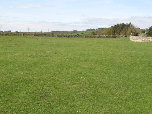 Halton Chesters (Onnum) Roman Fort - southwest part (2)